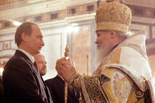 MOSCOW. At a Christmas service in the Cathedral of Christ the Saviour with Alexii II, the Patriarch of Moscow and All Russia.